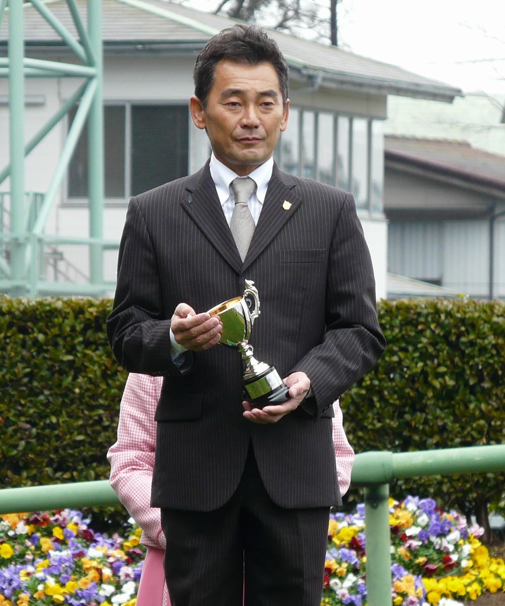 Tsuyoshi-Tanaka20120324